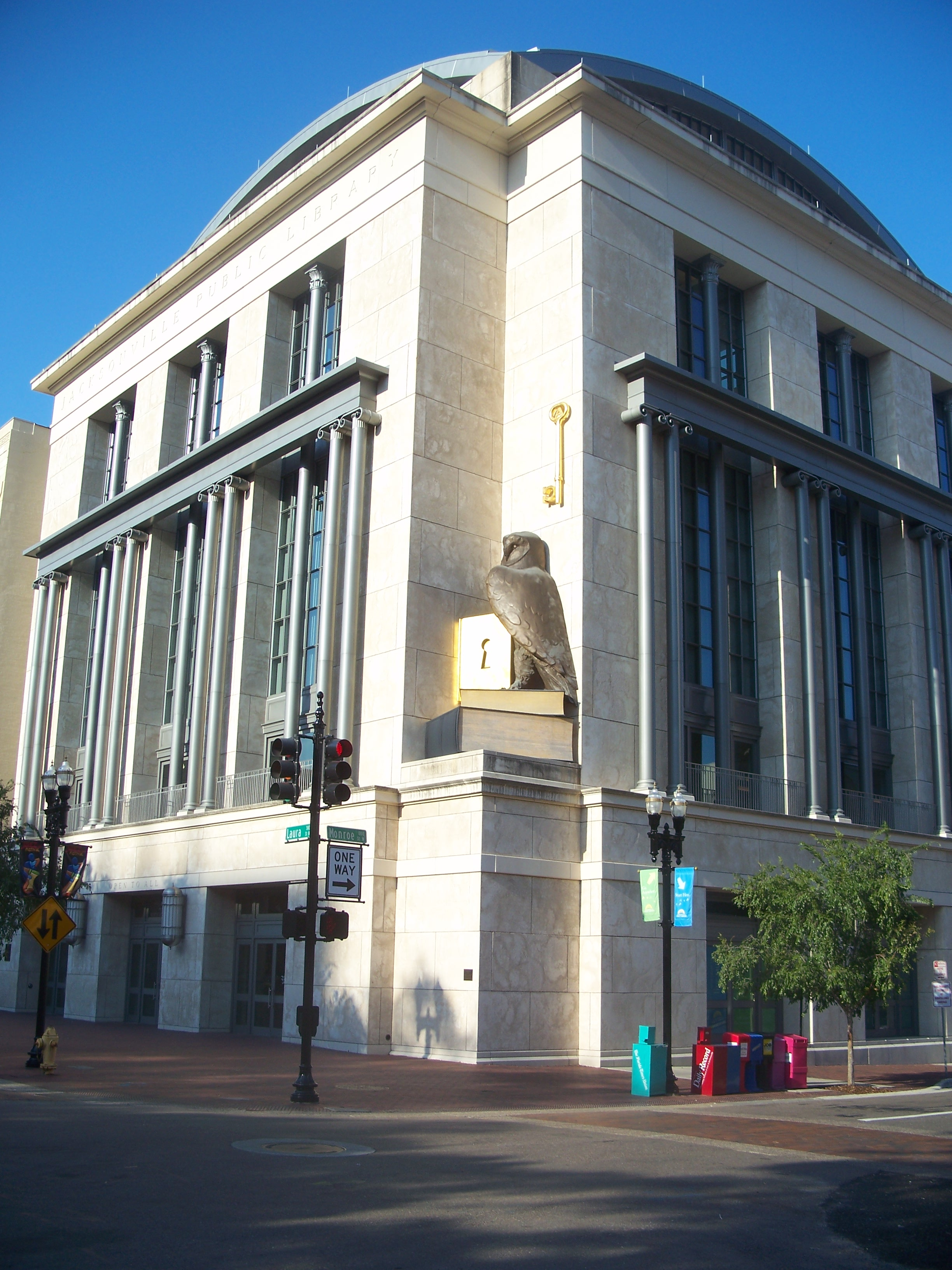 Jacksonville, Florida: Main downtown library